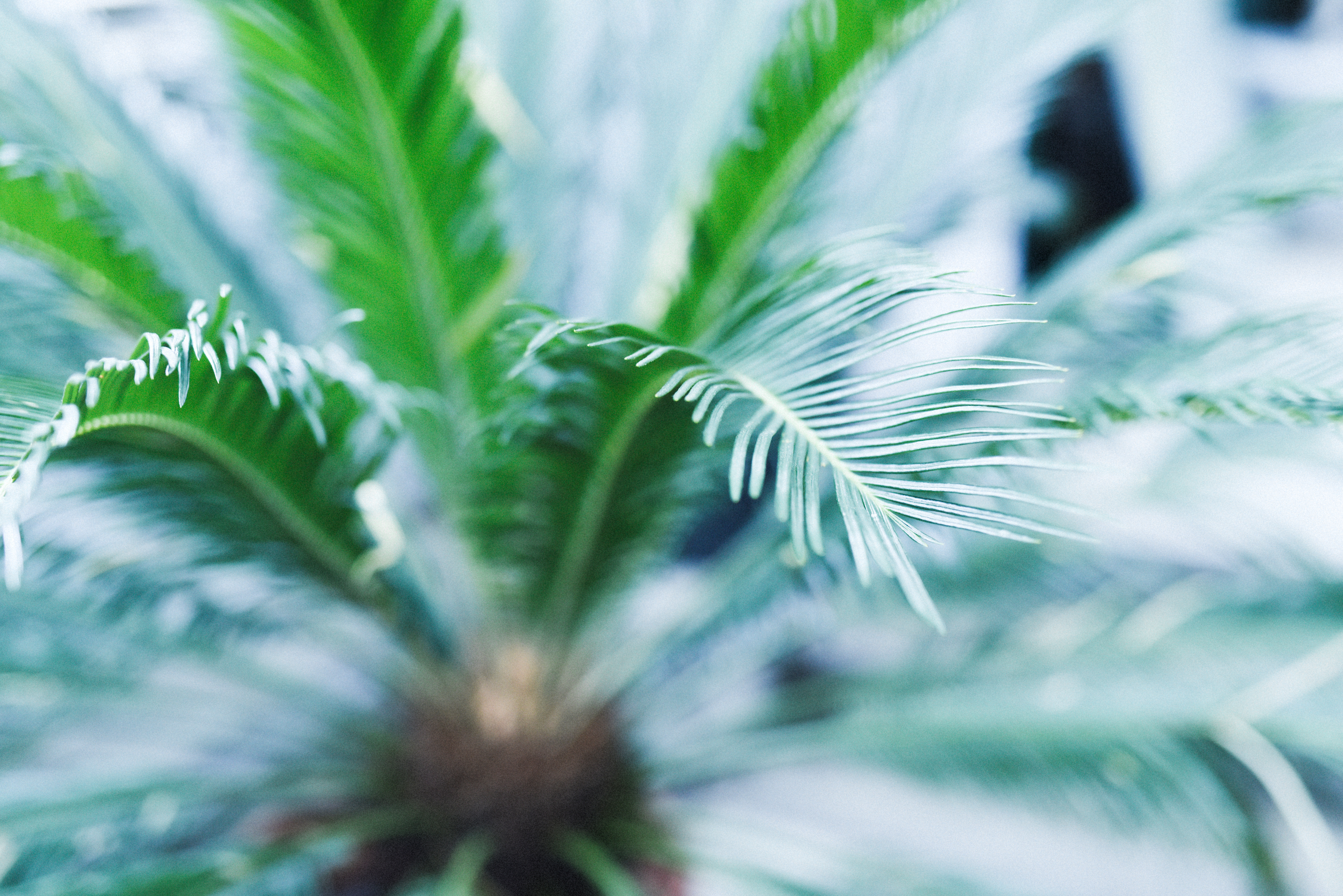 Plants at the New Canaan Nature Center.